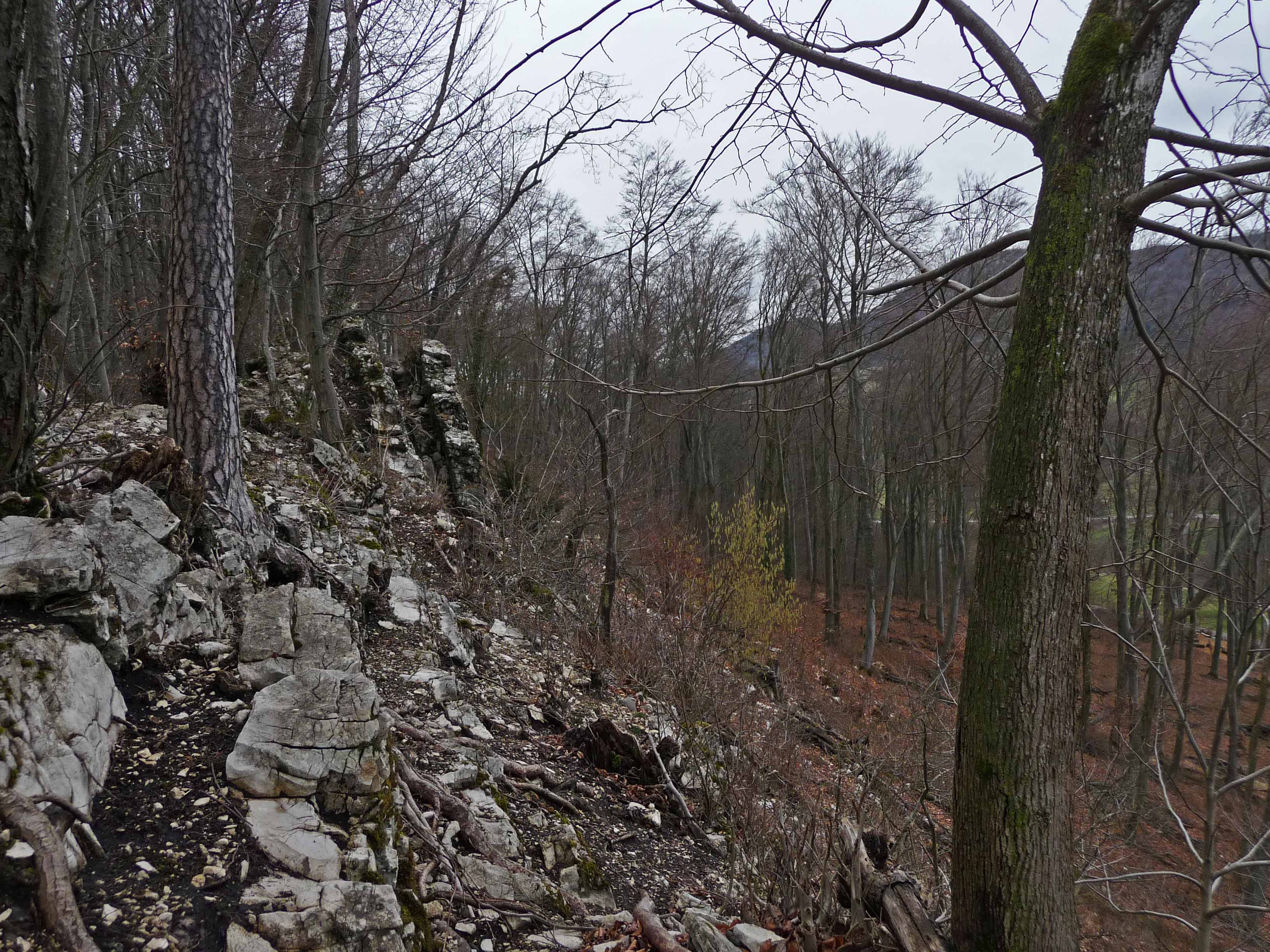 Vertically tilted rock slabs on the Geissberg ridge above Ennetbaden; in the background behind the trees to the right the Lägern ridge with Wettingerhorn and Burghorn